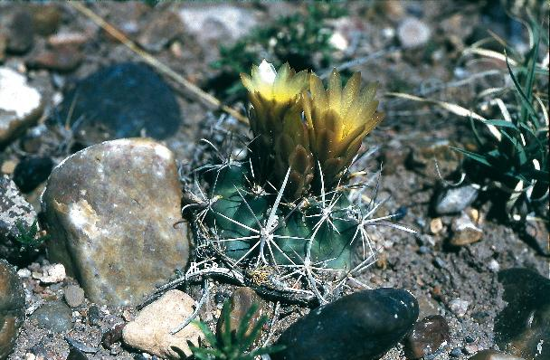 Sclerocactus whipplei